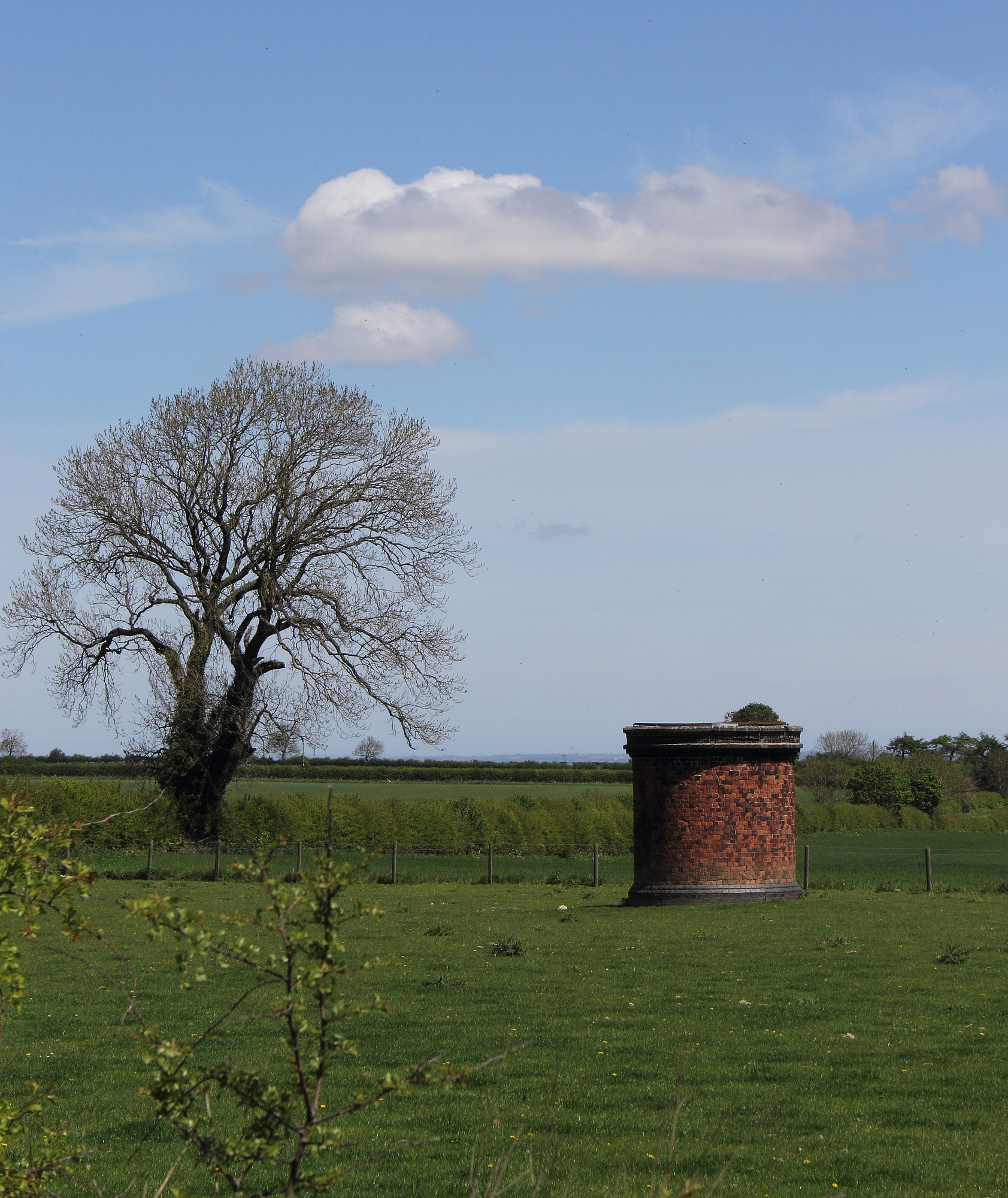 Drewton Tunnel airshaft number 3, Low Hunsley, East Riding of Yorkshire, England.